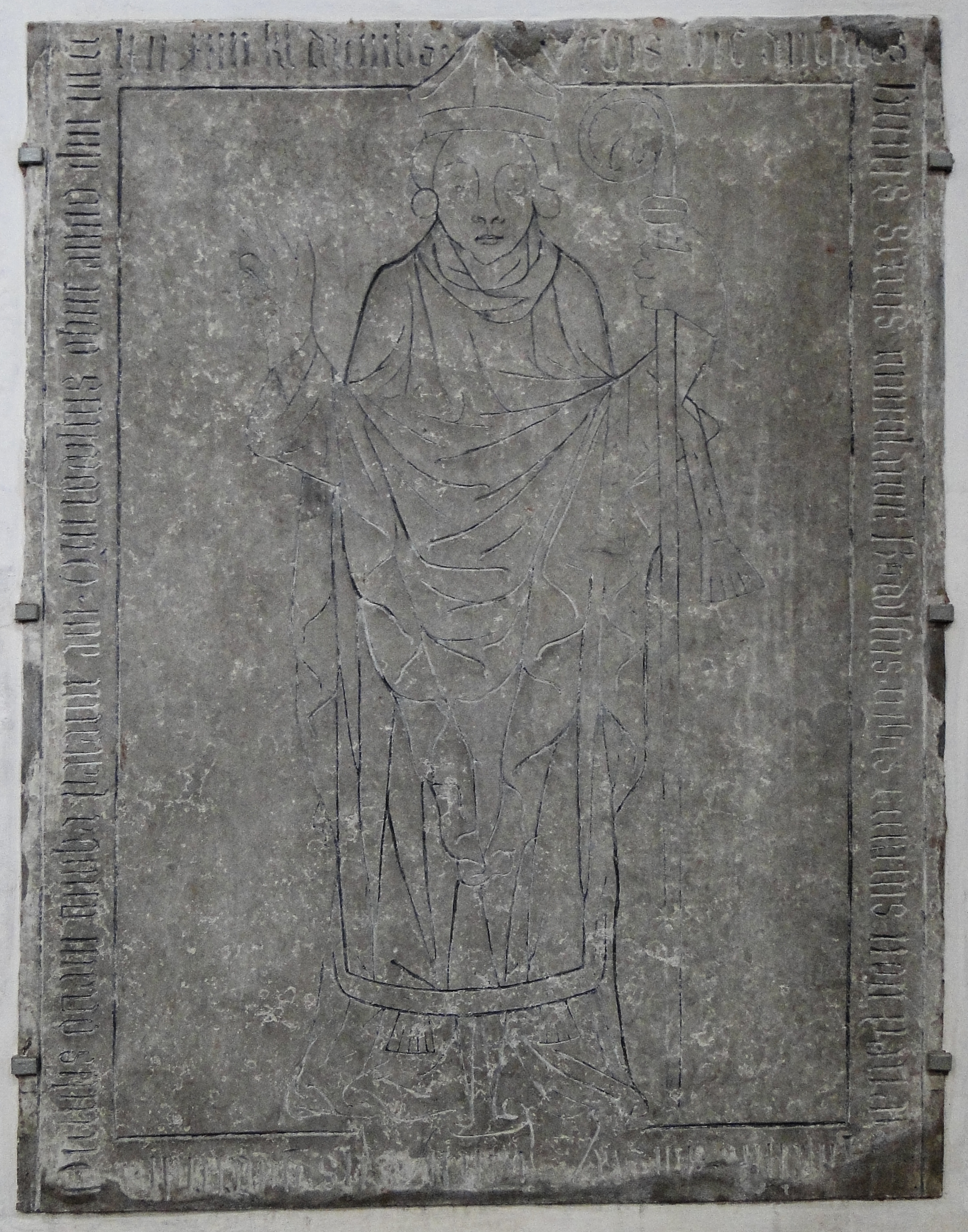 Ledger stone of bishop Rudolf I. in the cathedral in Schwerin, Mecklenburg-Vorpommern, Germany